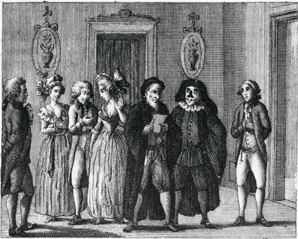 Scene from Carlo Goldoni's The Antiquarian's Family. 1791 image.